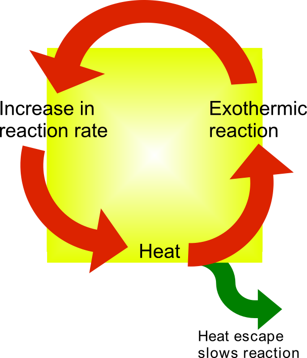 Own work, made with Inkscape. February 8, 2009.